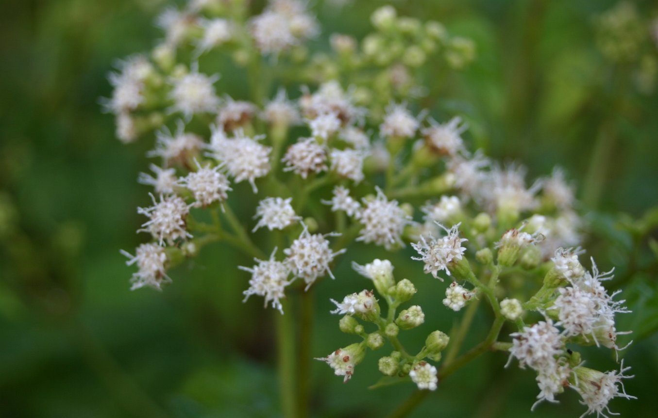 Eupatorium rugosum: Close-up on the flowers